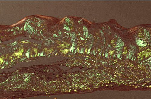 Gelatinous drop-like corneal dystrophy. Apple green dichroism of subepithelial deposition of amyloid viewed under polarized light. Congo red stain. Klintworth Orphanet Journal of Rare Diseases 2009 4:7